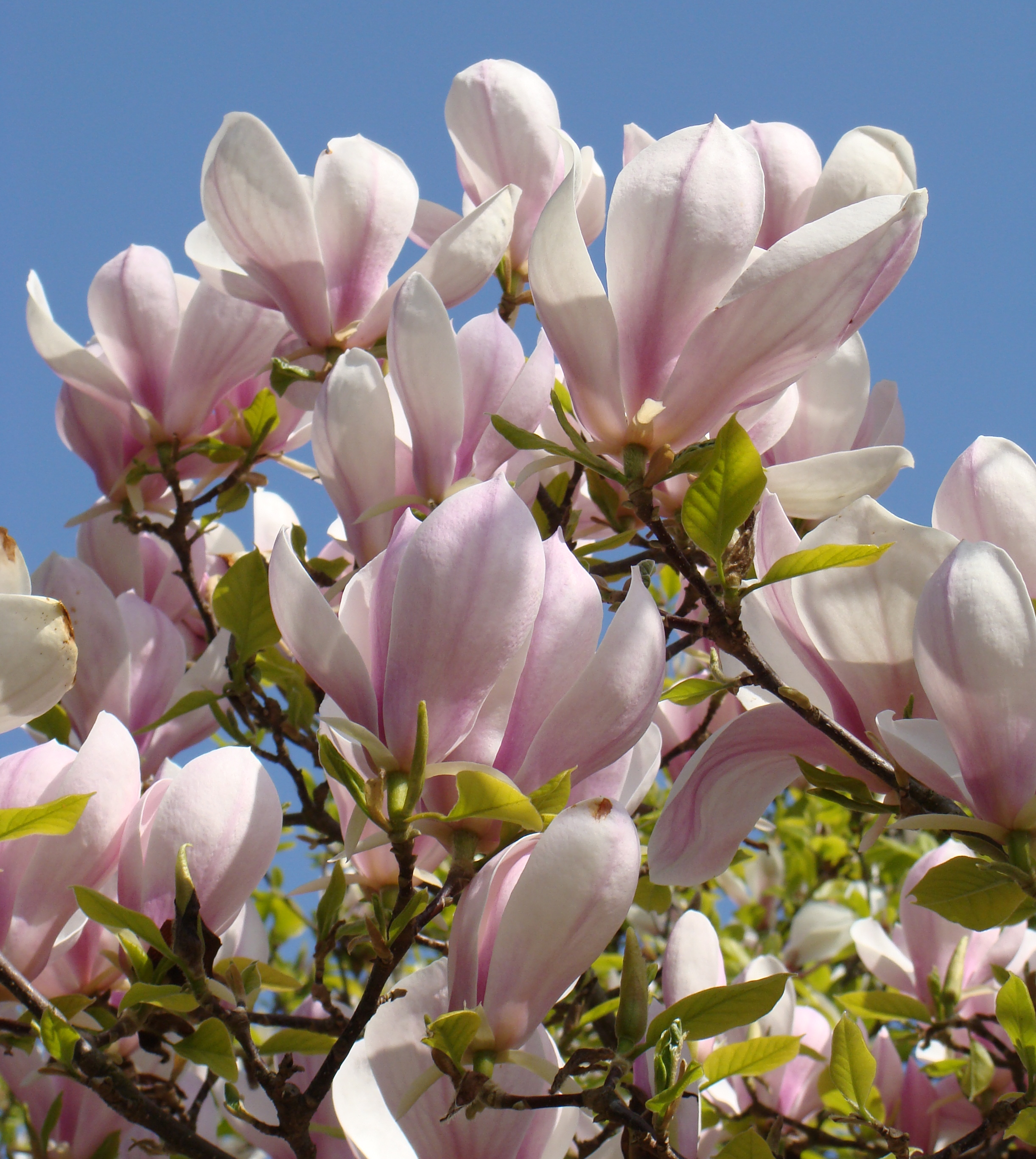 Magnolia × soulangeana